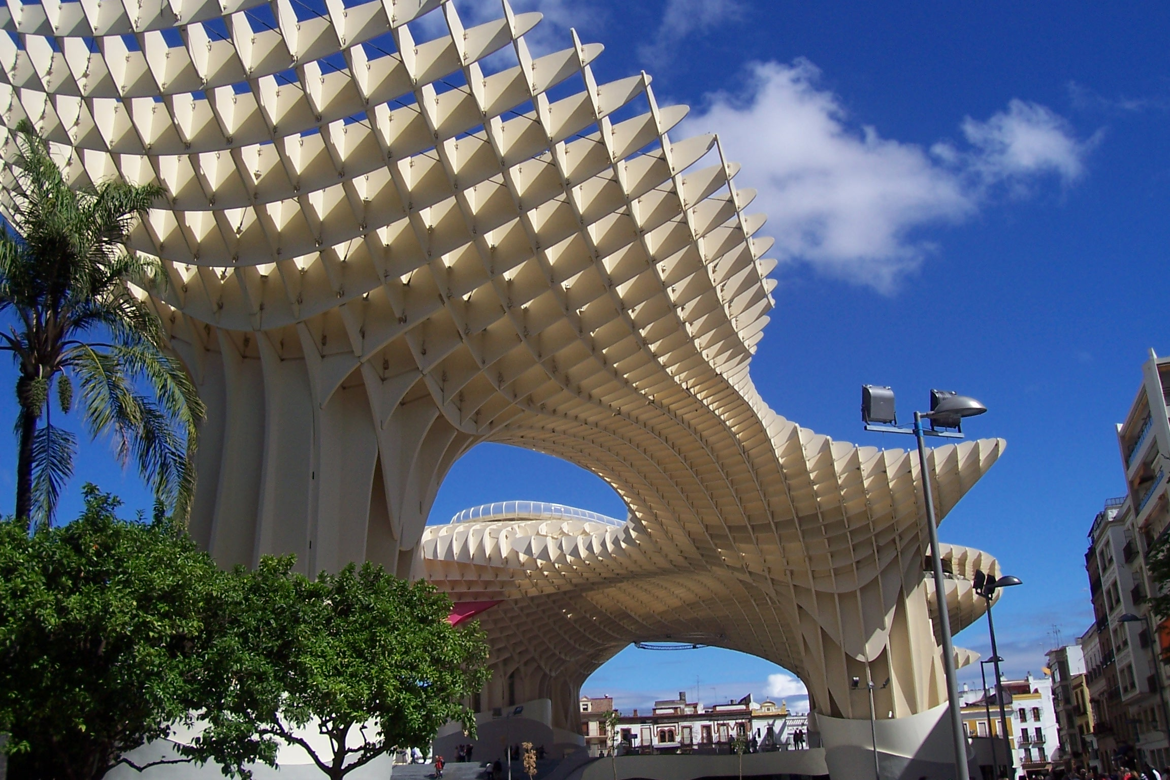 Metropol Parasol, Seville